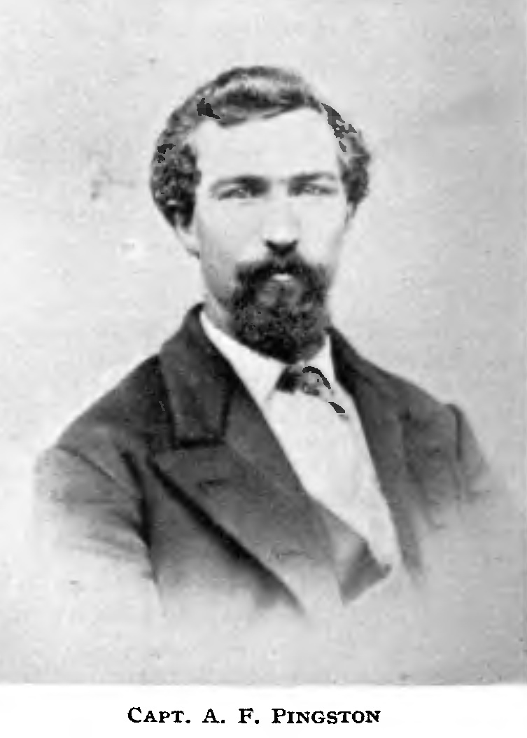 photograph of A.F. Pingstone, steamboat captain